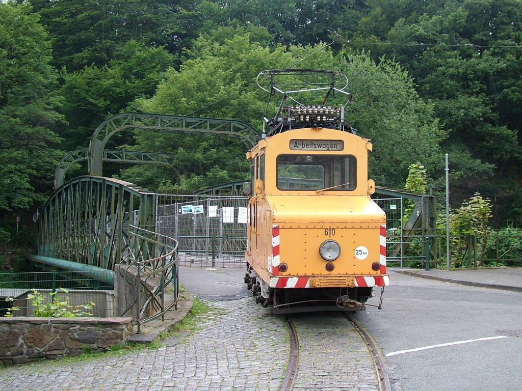 Historic rail grinder car 610 (former Bogestra) of the Bergische Museums-Strassenbahn in front of the Kohlfurth bridge in Wuppertal, Germany